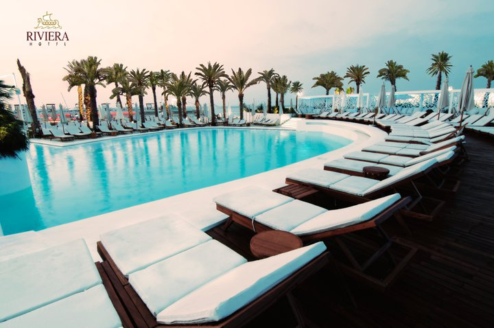 Pool View